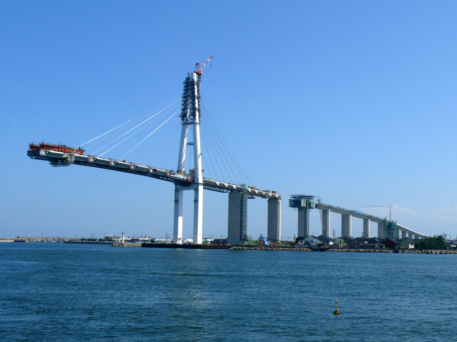 Shinminato-Ohashi Construction site（Toyama Prefecture, Japan）.